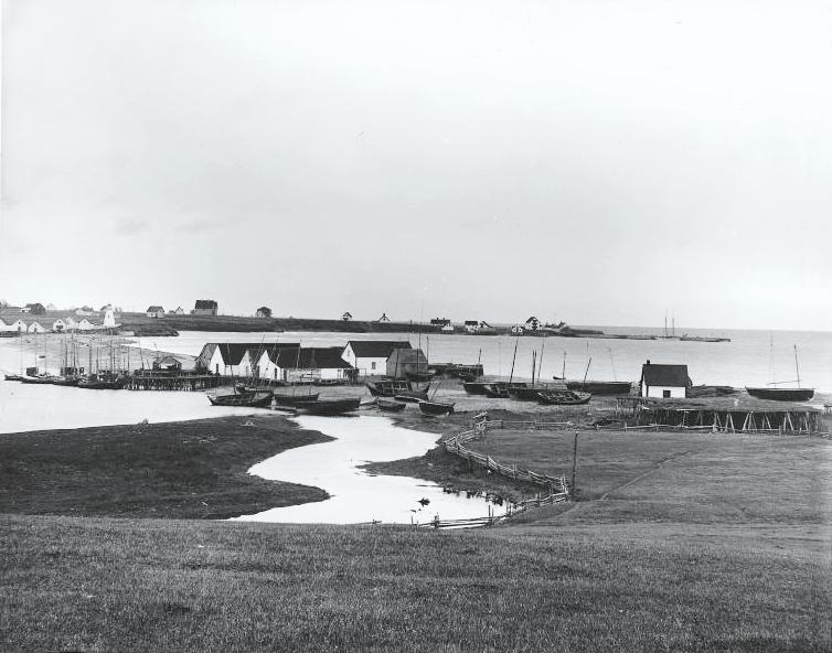 Photograph, Grand Pabos, Gaspé Peninsula, QC, about 1900, Wm. Notman & Son, Silver salts on glass - Gelatin dry plate process - 20 x 25 cm